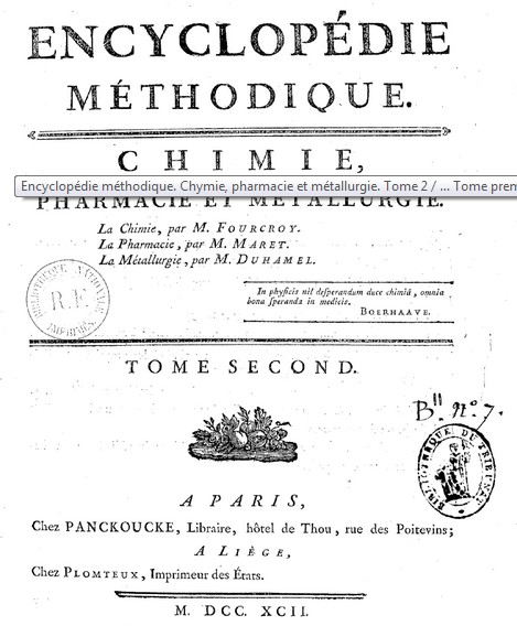 Methodical Encyclopedia of Chemistry, Pharmacy and Metalurgy